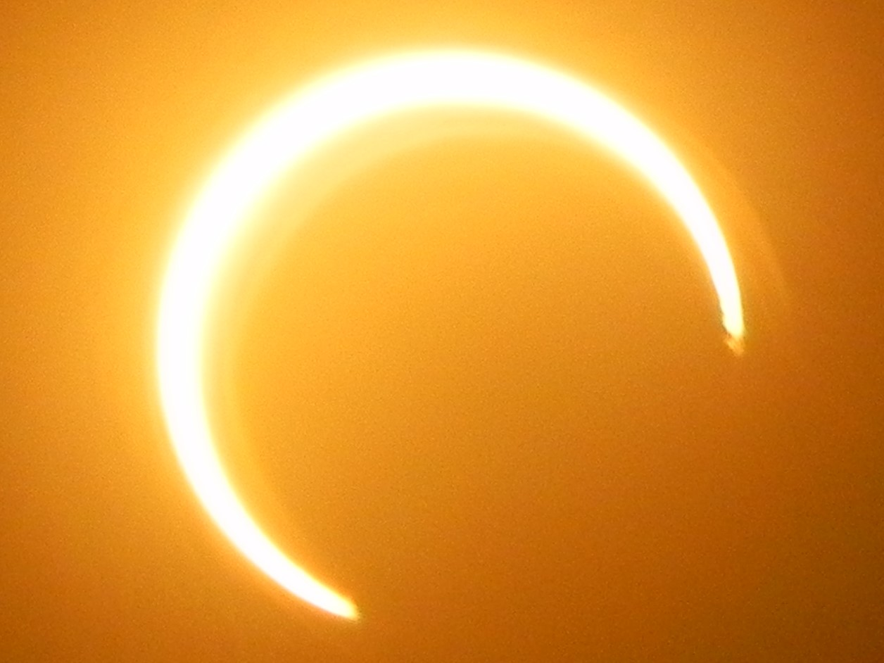 [Solar eclipse of June 21, 2020] as witnessed in [Sana'a] [Yemen] at 08:09 AM local time. My Sony 63x camera was burnt during picturing, then I had to catch it using my Nikon camera which was not yet configured correctly (wrong date and time).